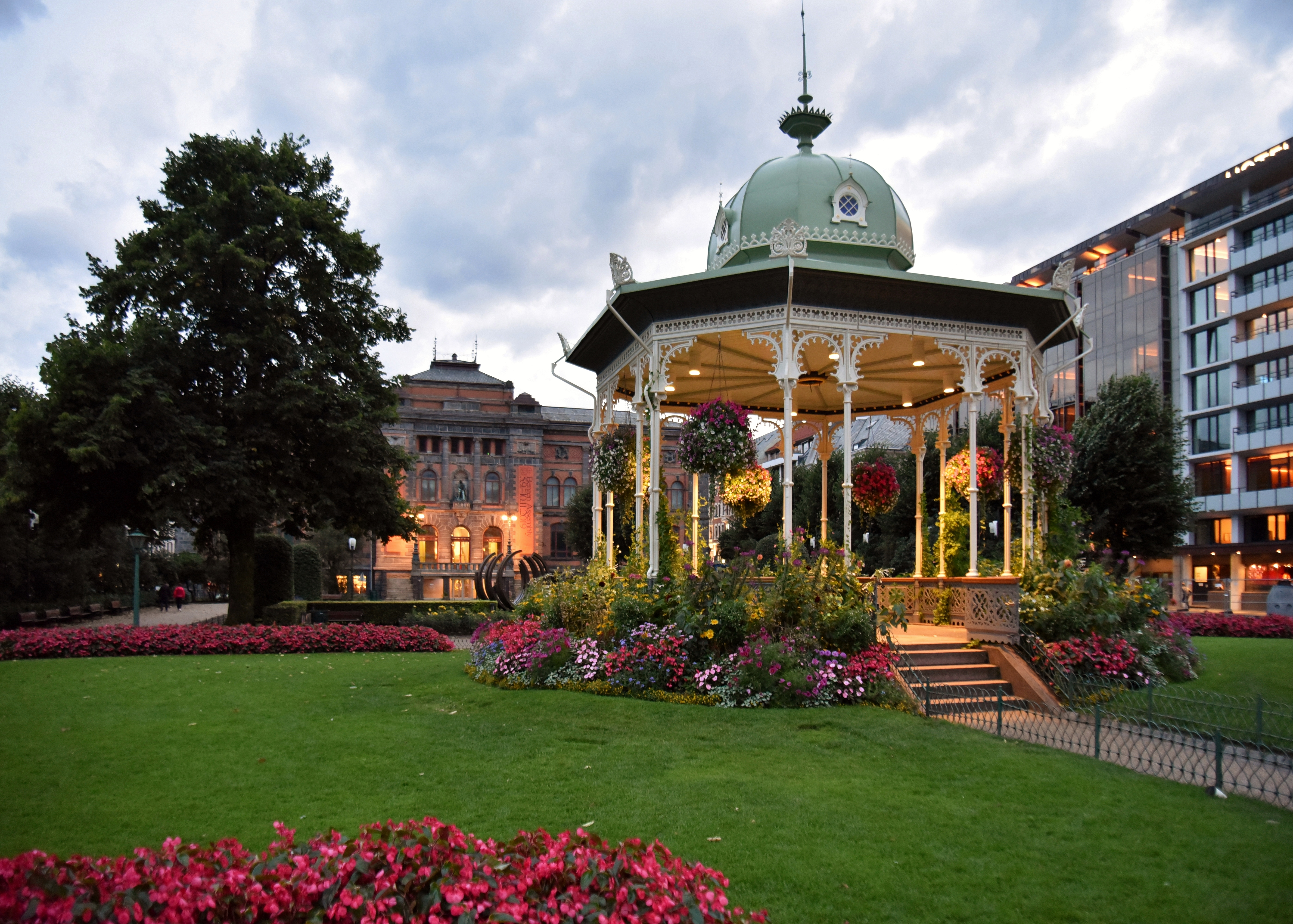 View of the Musikkpaviljongen, Bergen, Norway, with the West Norway Museum of Decorative Art in the background